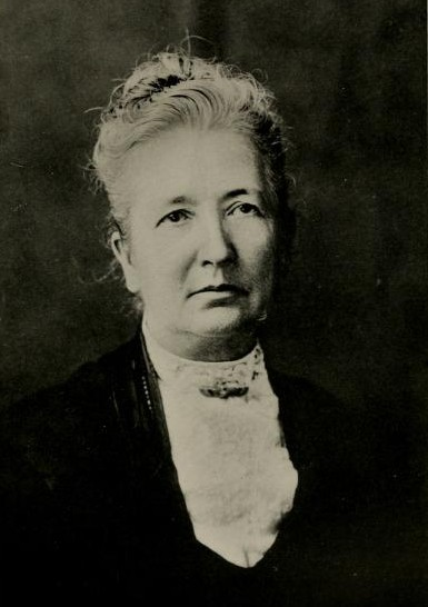 Portrait of Althea Sherman, taken for her biographical article in Realto E Price's "History of Clayton County, Iowa" (1916). Picture was first published in the USA in 1916, the author, Realto E. Price died in 1935. Ms. Sherman died in 1943.